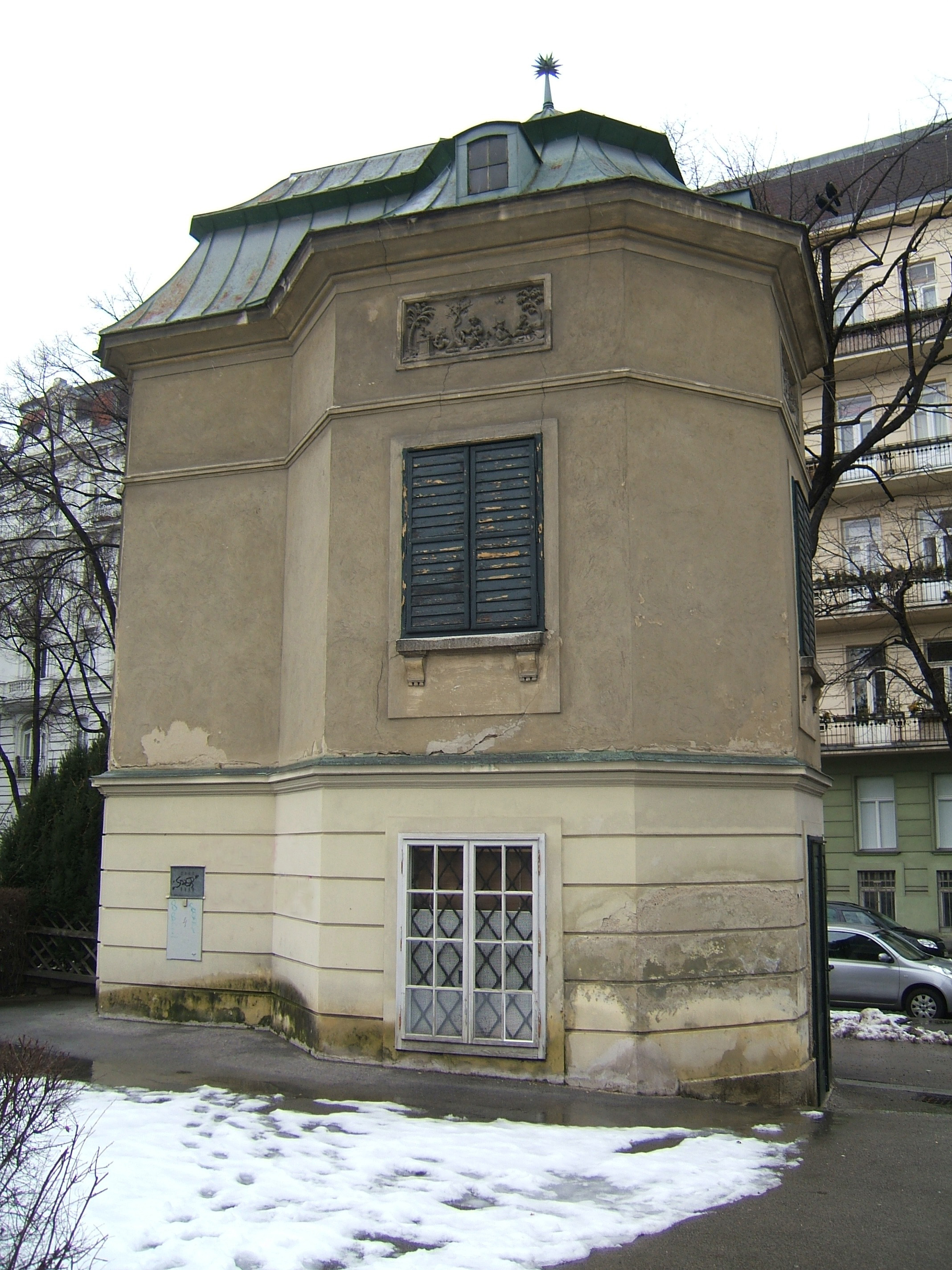 Pavilion of the former palais Esterházy in the Arenbergpark in Vienna, 3rd district. View from the garden.